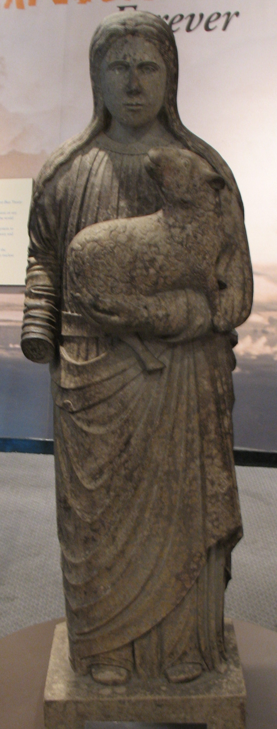 A statue of St. Agnes. The statue was originally located in the cathedral Urakami Tenshudo in Nagasaki, Japan. It was found in the ruins of the cathedral after the nuclear attack. The statue is now located in The UN headquarters, New York.